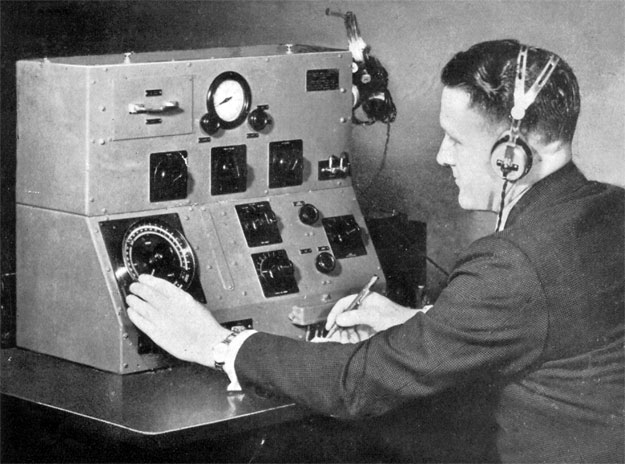 A Marconi Company Bellini-Tosi radiogoniometer used as part of the 1934 London-to-Melbourne Air Race. The set appeared in this image in an Amalgamated Wireless brochure in the 1930s.